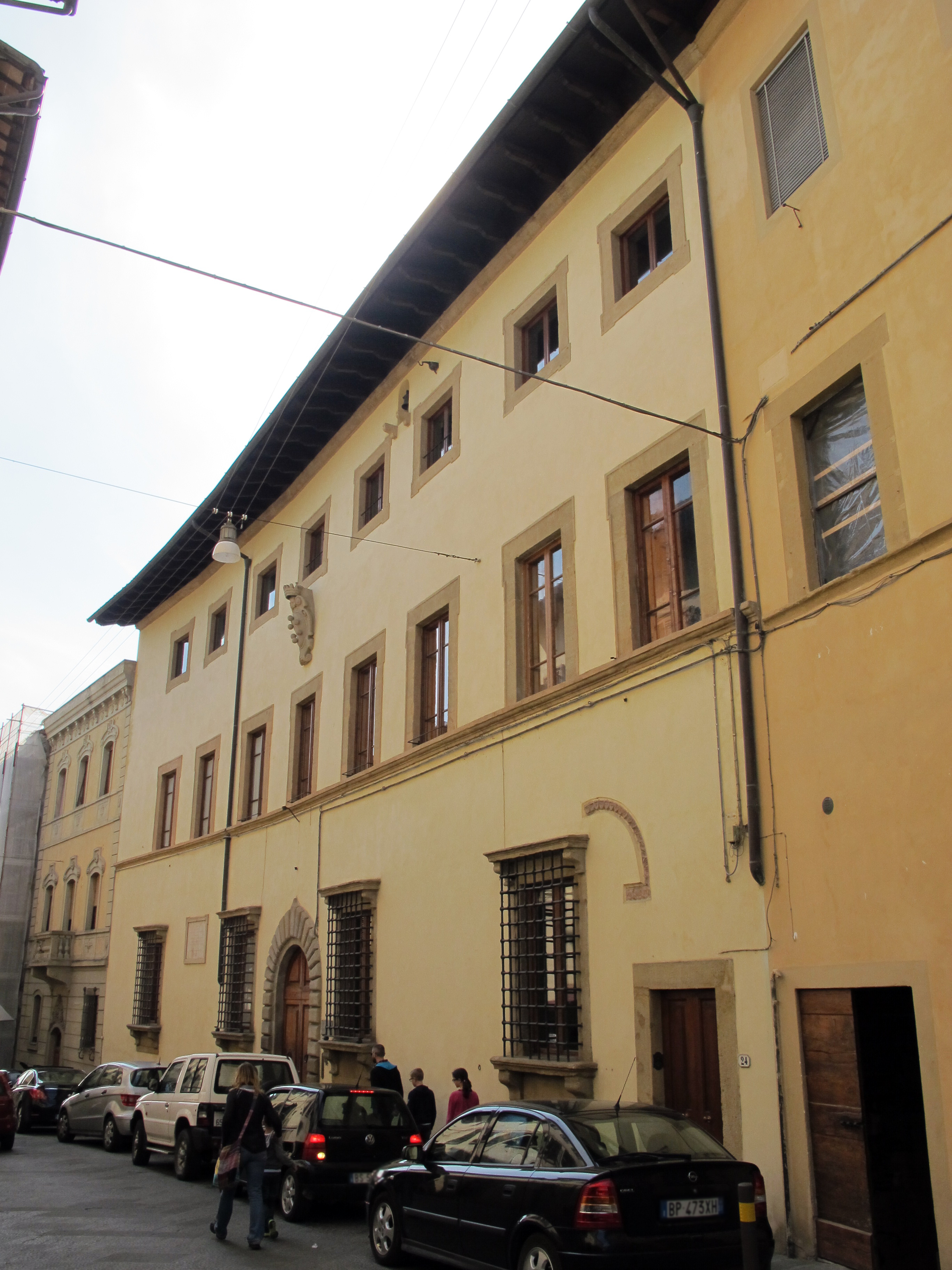 Buildings in Colle di Val d'Elsa